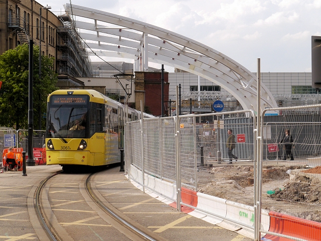 A Metrolink tram departs from Manchester Victoria in May 2014 as construction continues on the new Victoria station roof